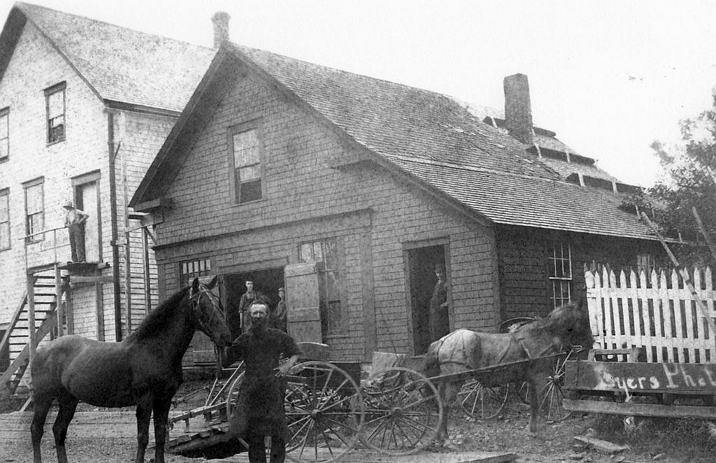 George Douglas, Blacksmith, Tatamagouche, Nova Scotia.